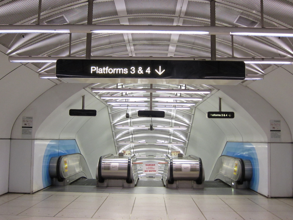 Escalators at Parliament railway station, Melbourne.